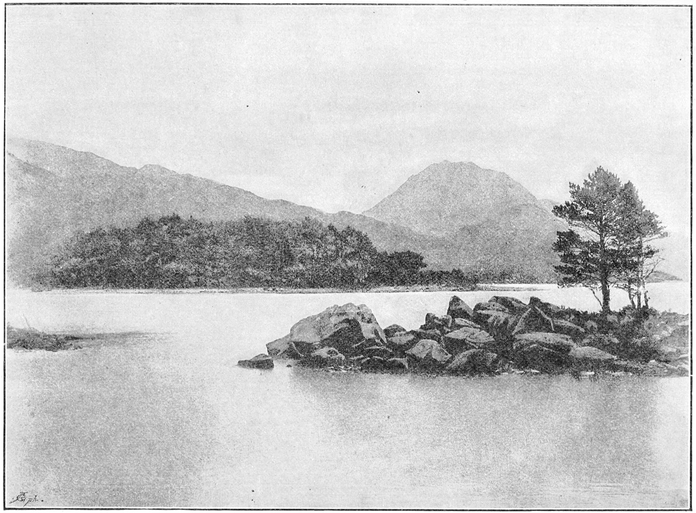 Illustration from a collected volume of journals, from an article "The Sanctuary of Mourie'